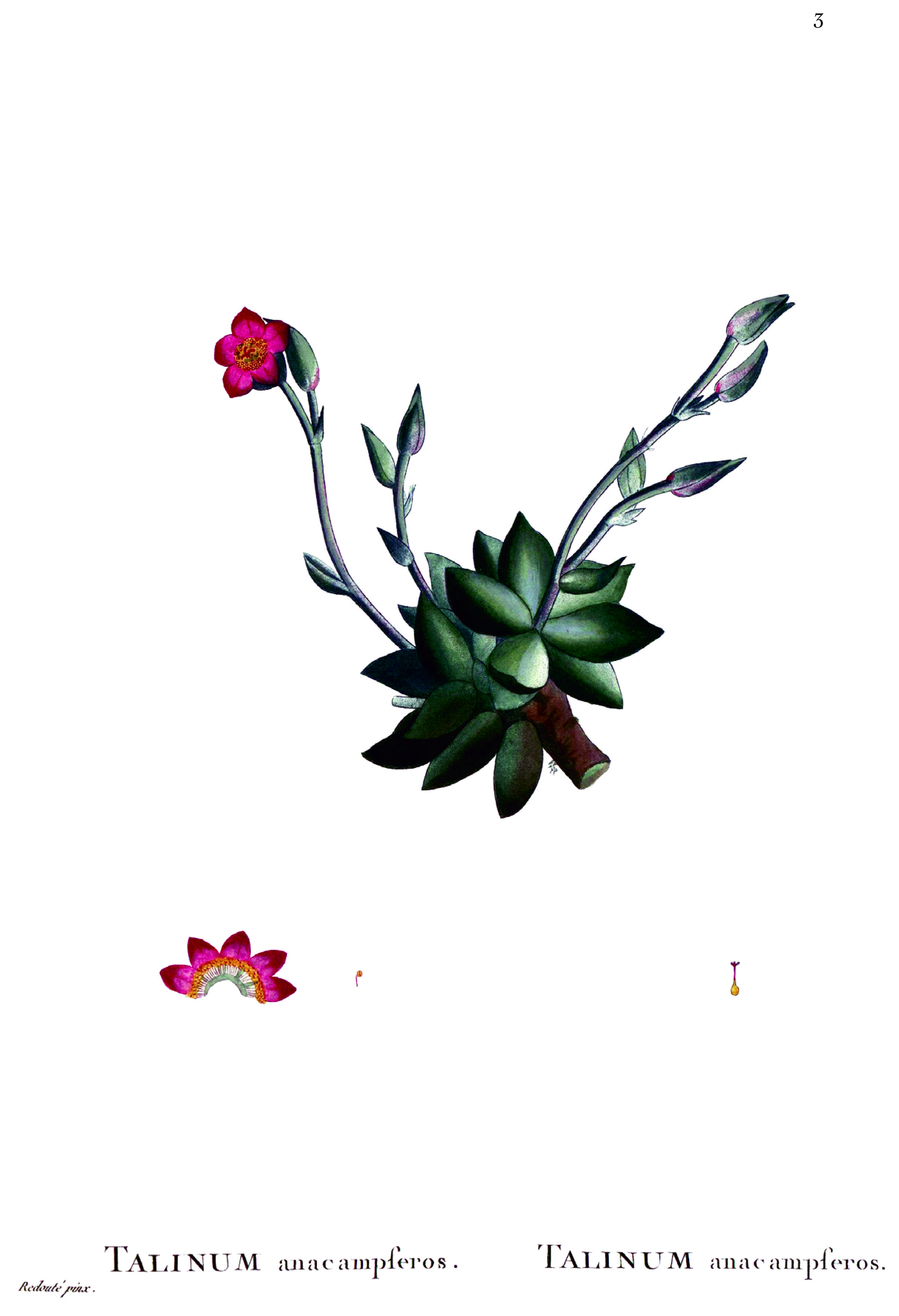 Anacampseros telephiastrum